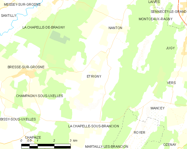 Map of French municipality